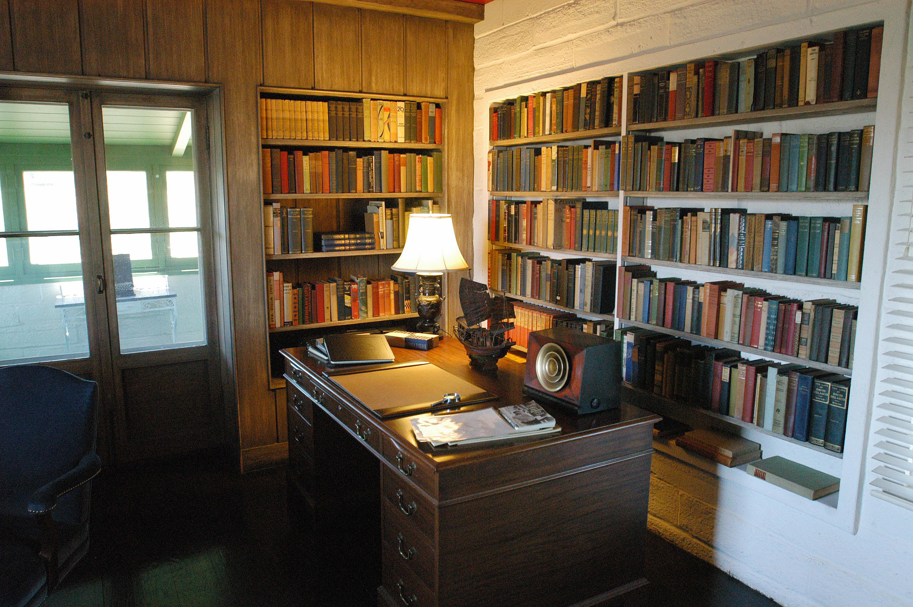 HIS STUDY IN WHICH HE WORKED AND IN WHICH HE COMPOSED HIS LAST PLAYS WHICH INCLUDED “THE ICEMAN COMETH”, LONG DAY’S JOURNEY INTO NIGHT, AND “A MOON FOR THE MISBEGOTTEN”. O’NEILL IS THE ONLY NOBEL PRIZE WINNING AMERICAN PLAYWRIGHT.